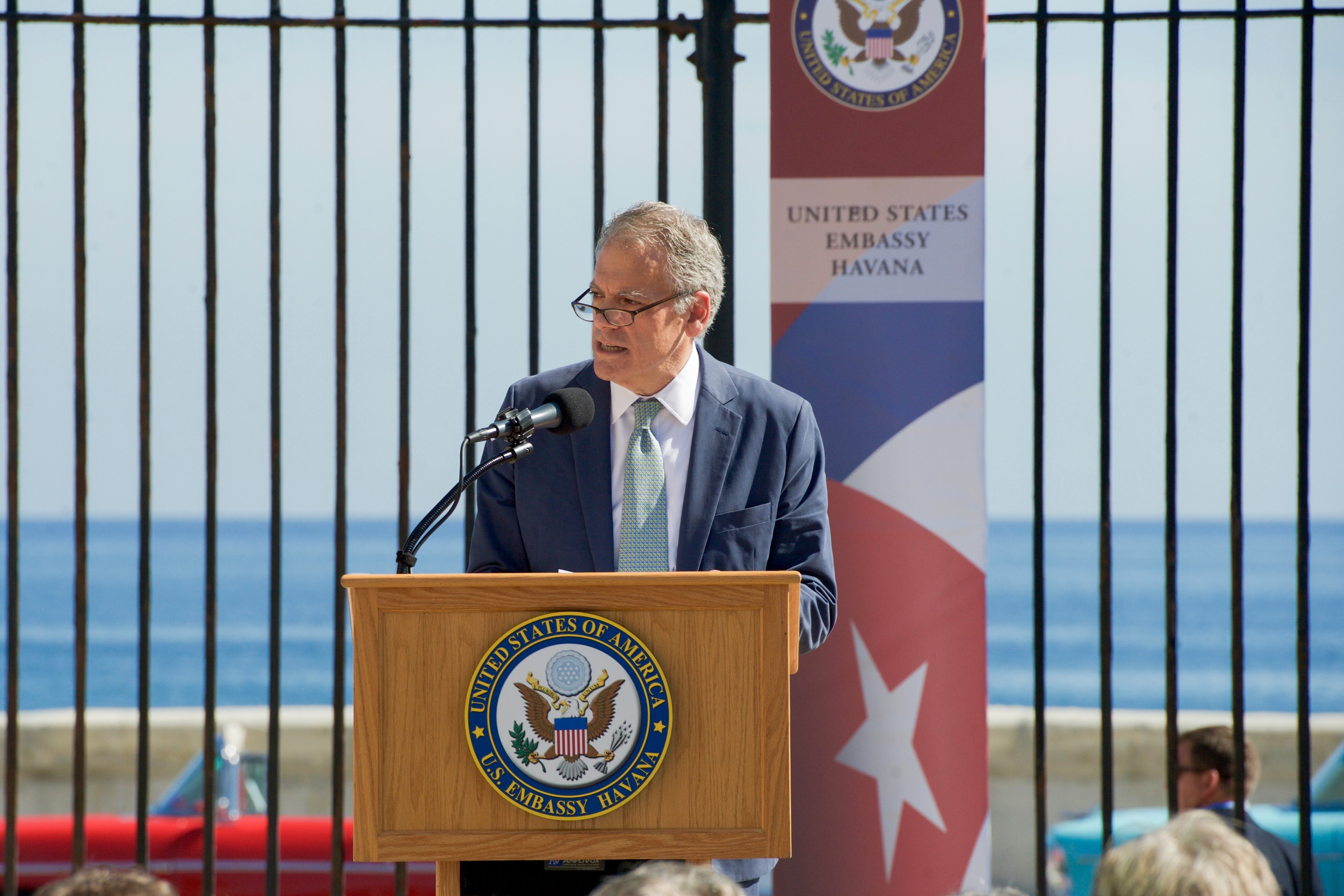 Ambassador Jeffrey DeLaurentis, Chargé d'Affaires at U.S. Embassy Havana, introduces U.S. Secretary of State John Kerry to speak and preside over the flag-raising ceremony at the newly re-opened U.S. Embassy in Havana, Cuba, on August 14, 2015. This the first time the American flag is raised over the Embassy in 54 years. [State Department photo/ Public Domain]